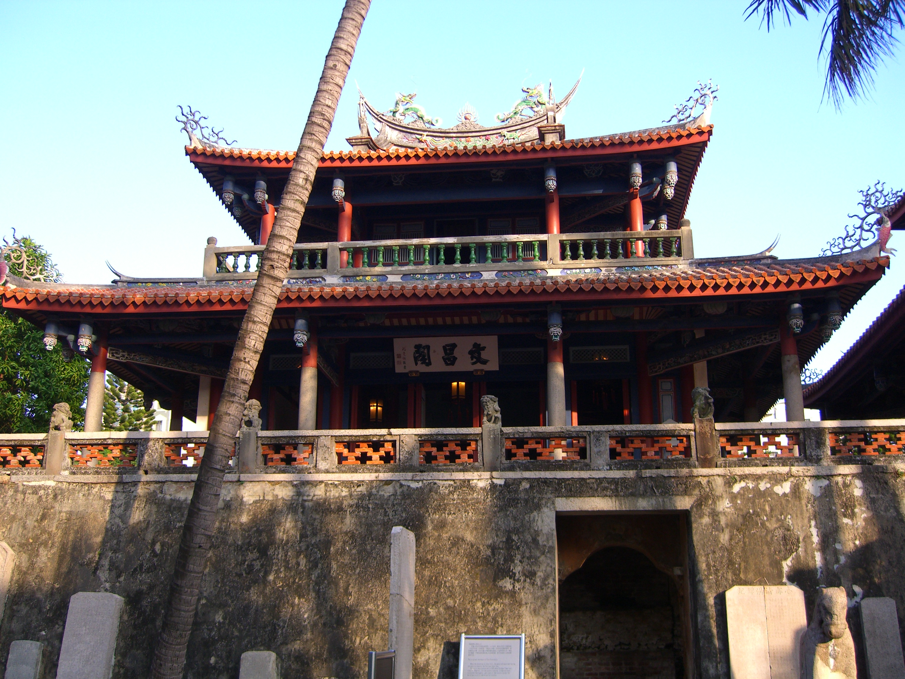 The Chihkan Tower 赤崁樓